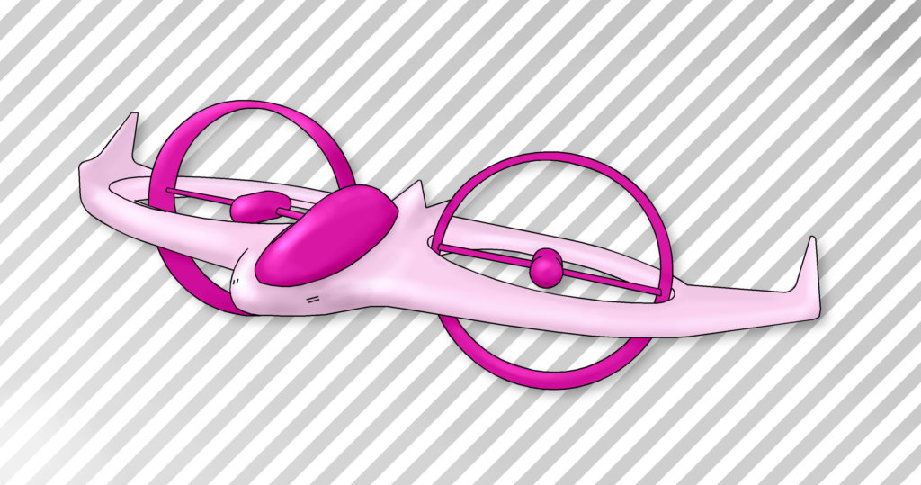 Sketch of Agusta project zero